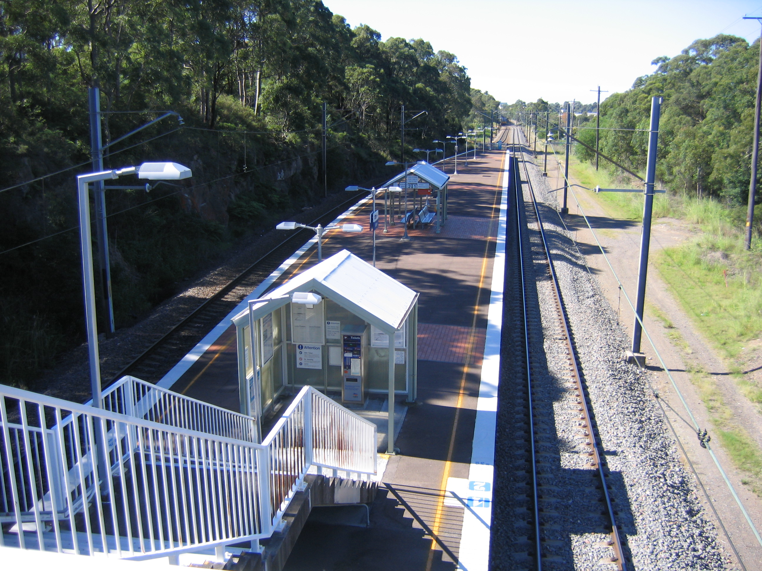 Kotara Railway station viewed from bridge